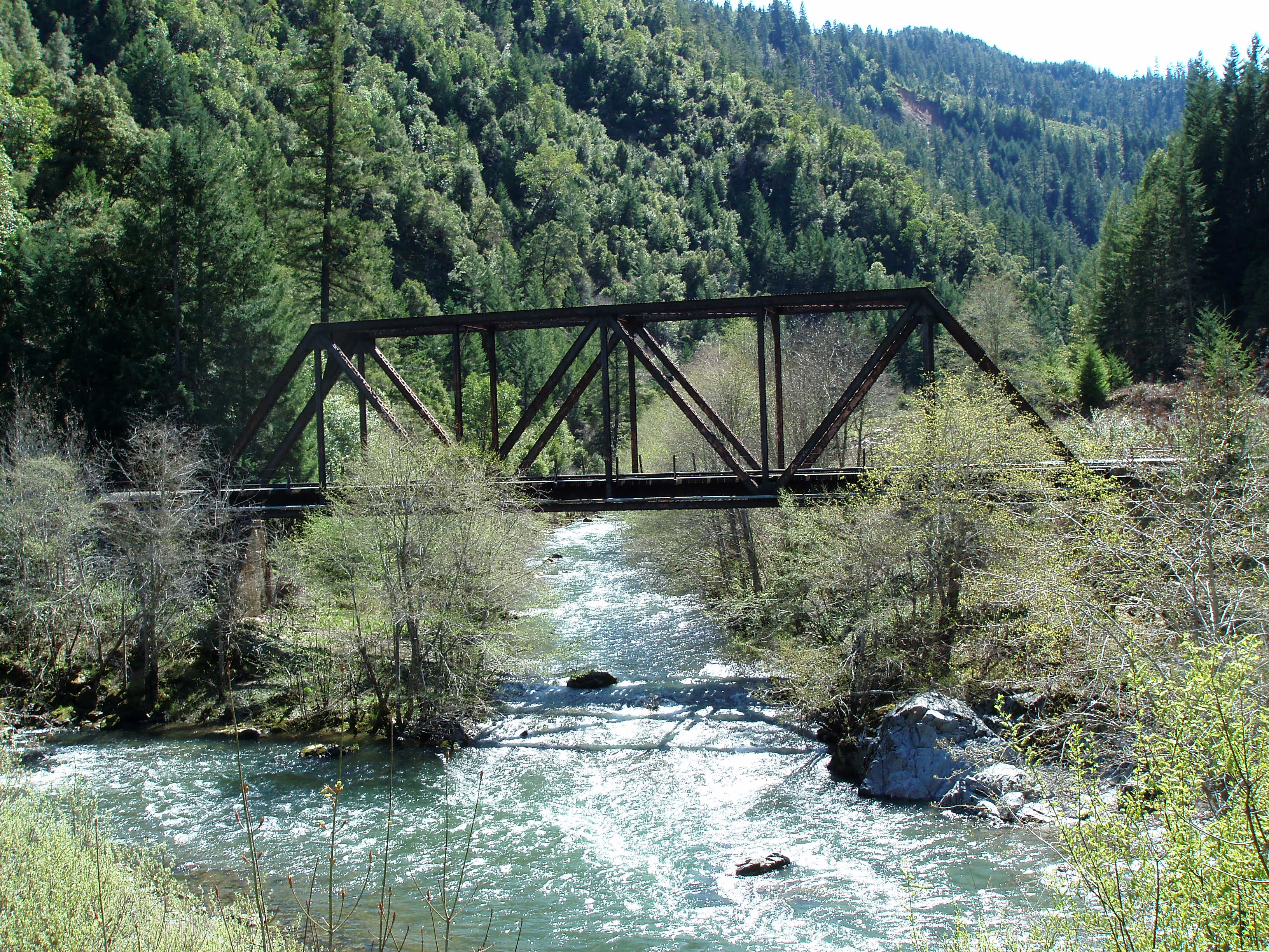 Westfork Bridge built to carry logging trains across Cow Creek in southwestern Oregon; Cow Creek is a tributary of the South Umpqua River